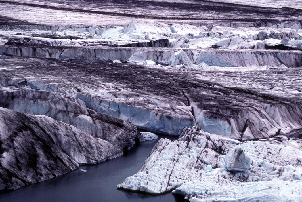 Bering Glacier located in the Chugach Mountains, Alaska.